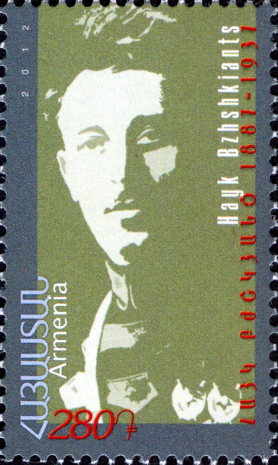 125th Anniversary of Gai (Hayk Bzhshkiants)